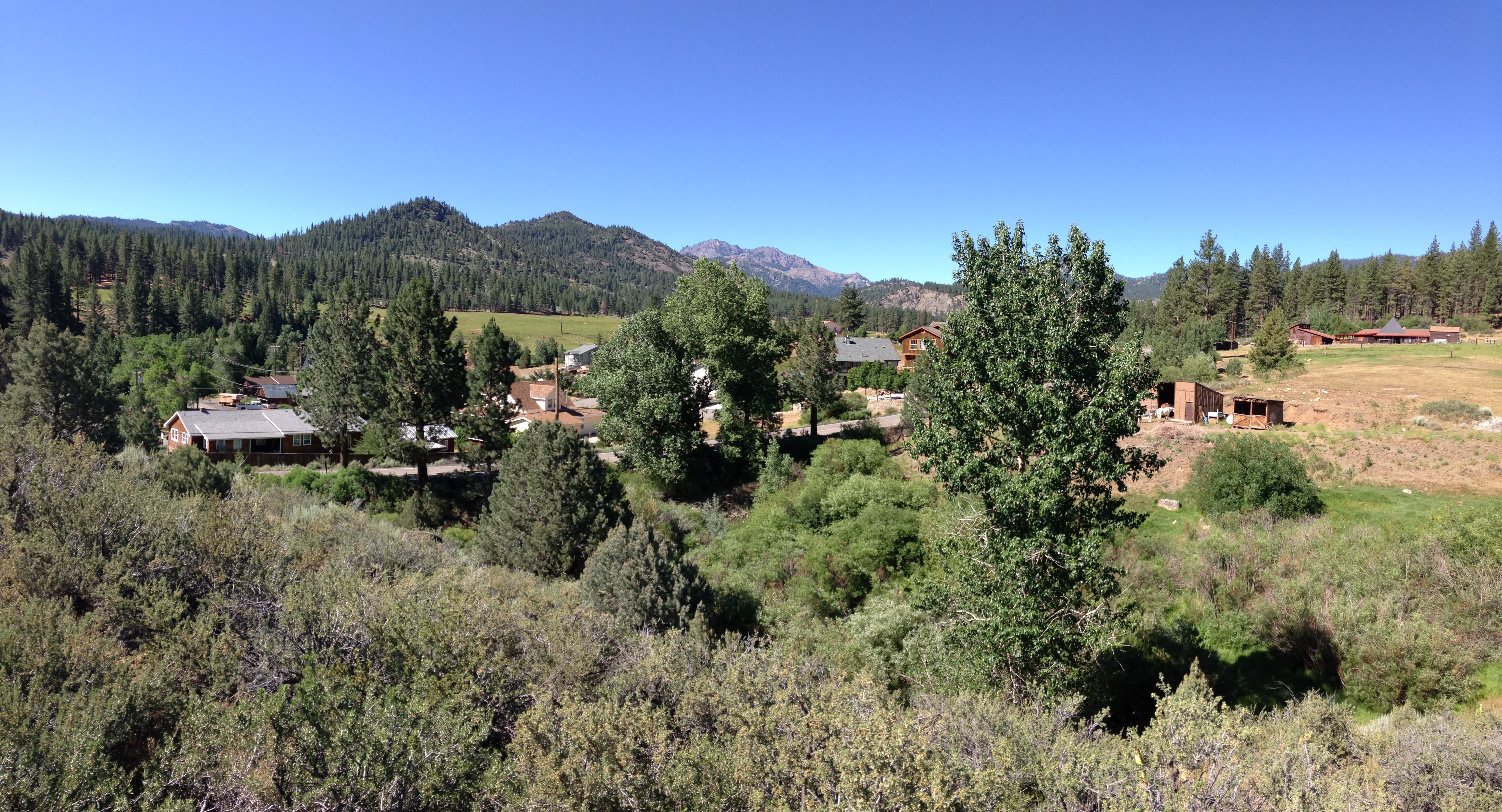 Markleeville, Alpine County, California